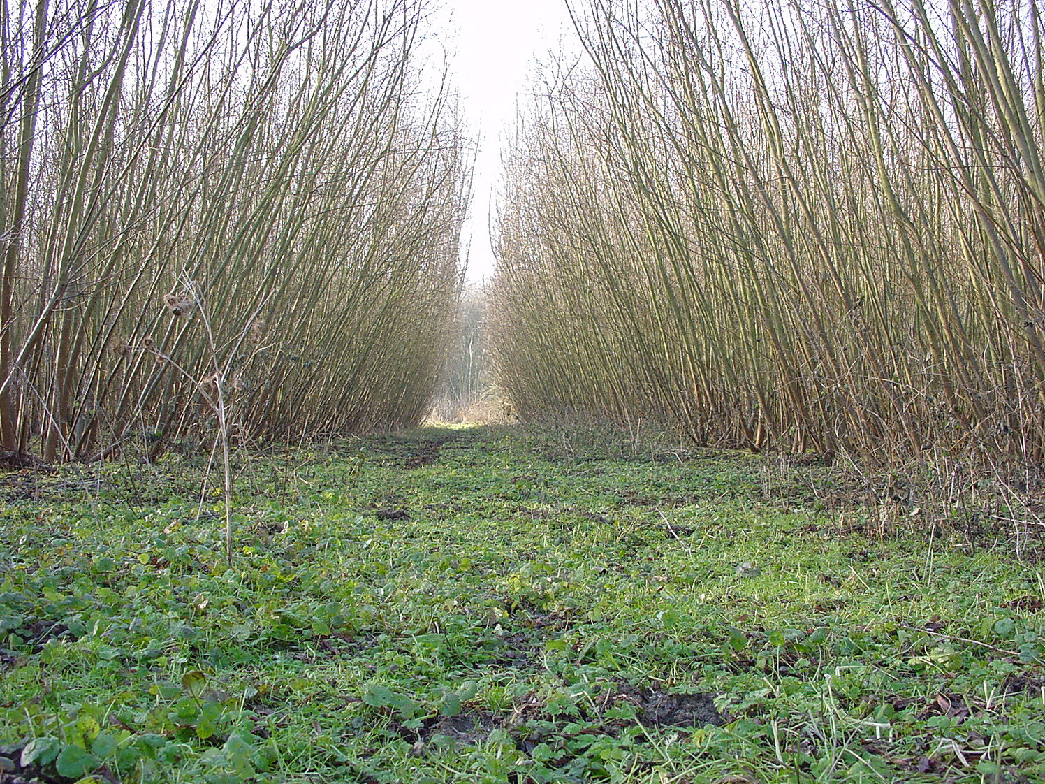 Coppice short rotation willow (clones), irrigated by water from the purification plant of Villeneuve d'Ascq (town, in northern France) for final purification of water (nitrates, phosphates). This coppice was used to produce wood chips to fuel a boiler-wood.